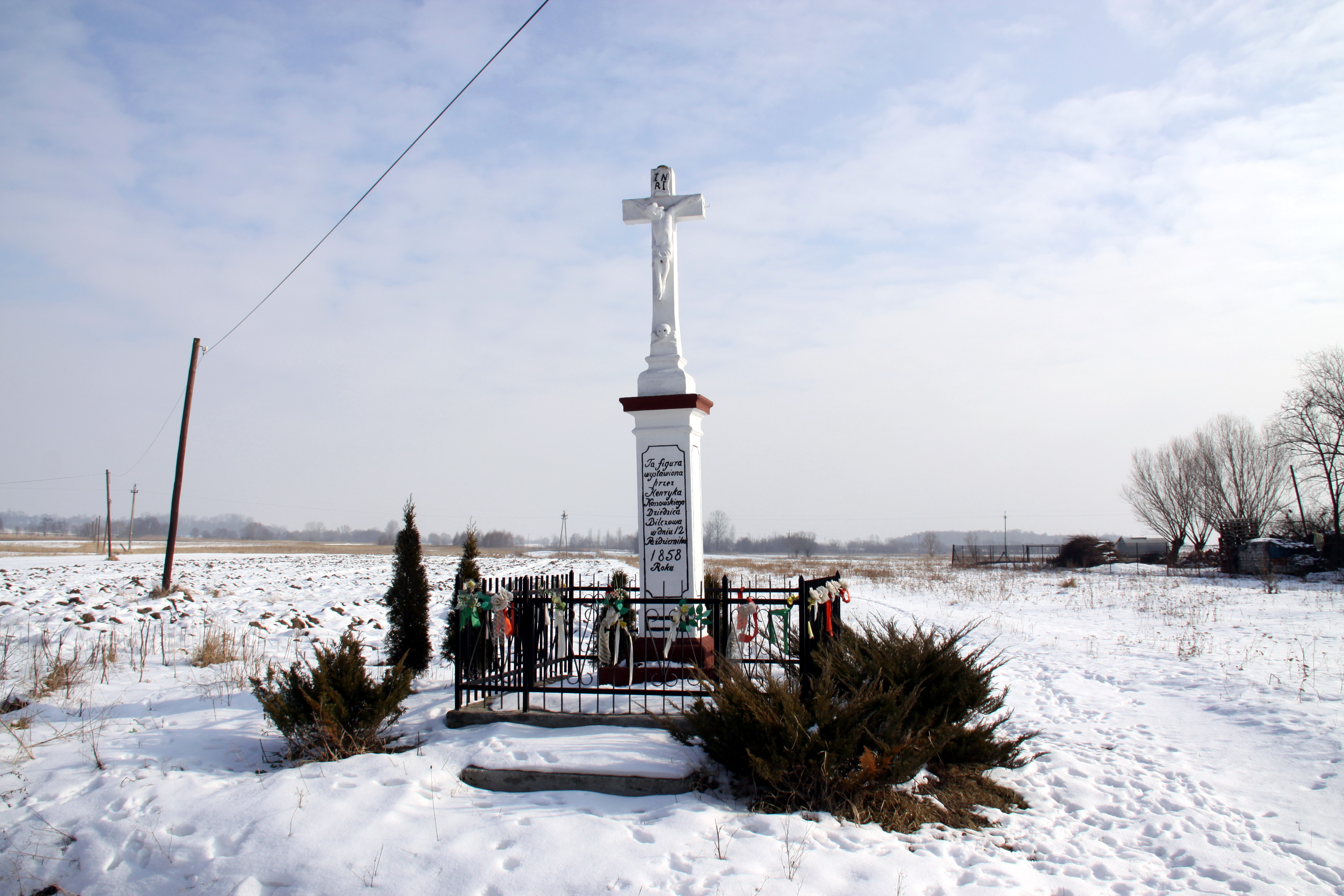 Bilczów - a wayside cross in 1858, the foundation of Henry Kossowski.